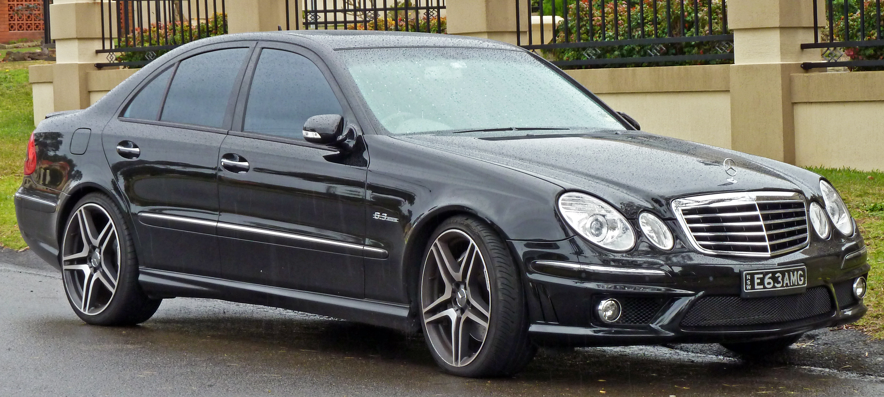 2007 Mercedes-Benz E 63 AMG (W211) sedan. Photographed in Sylvania, New South Wales, Australia.